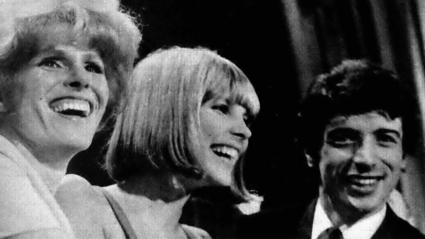 Italian singers Ornella Vanoni, Marisa Sannia and Don Backy on the stage of the Sanremo Music Festival